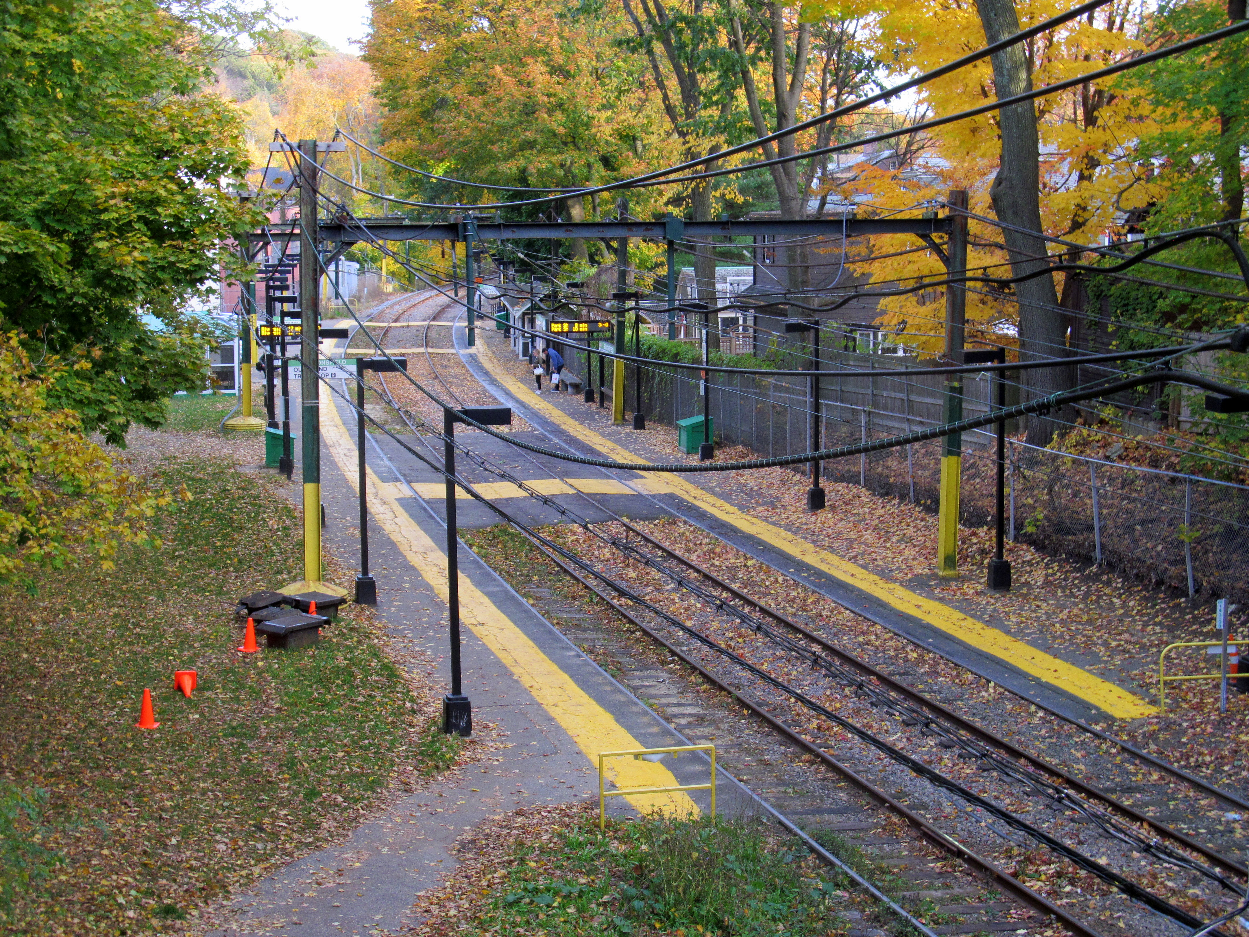 Beaconsfield station photographed from the staircase to Dean Road in November 2015